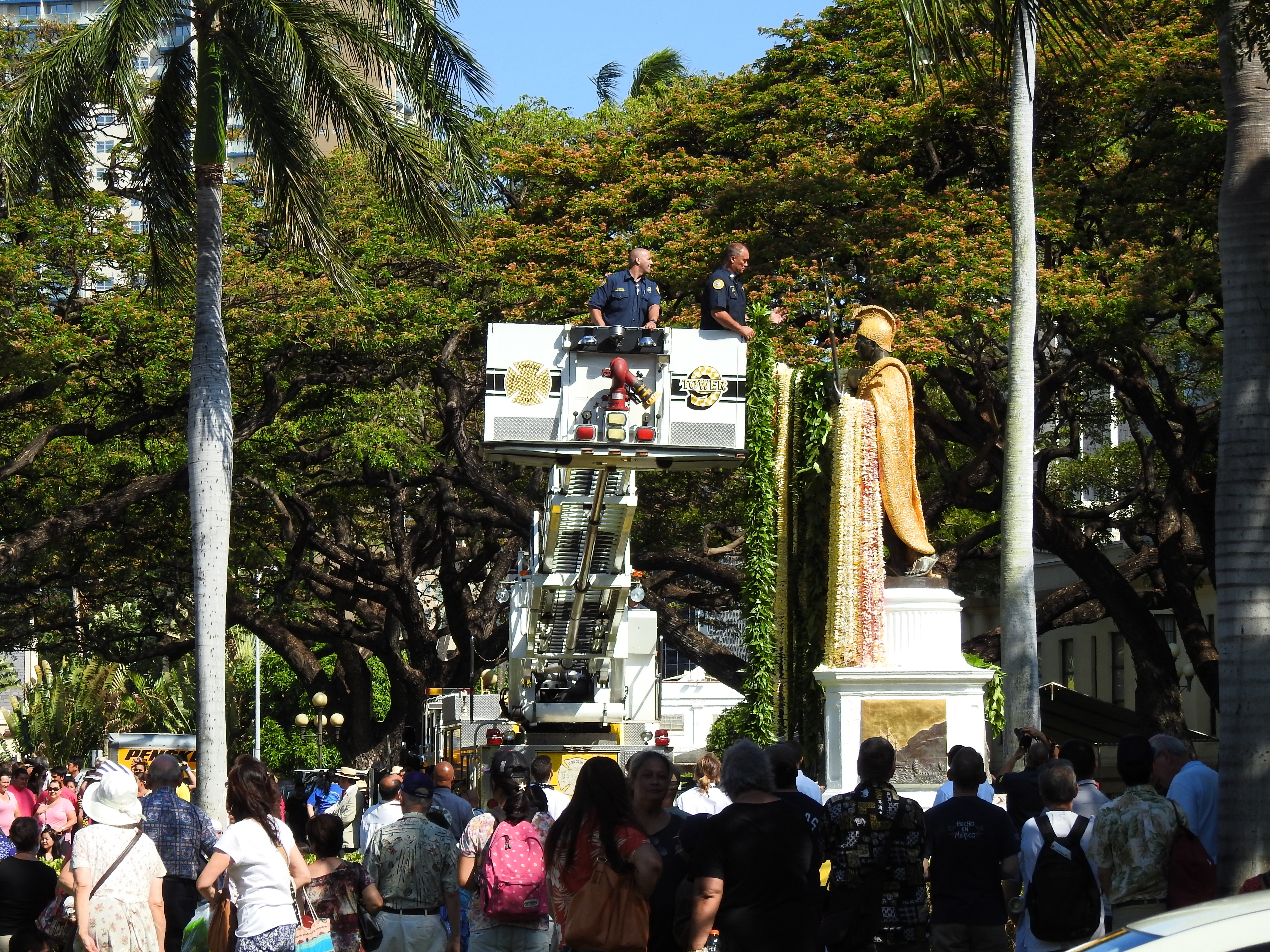 Lots of people watching.